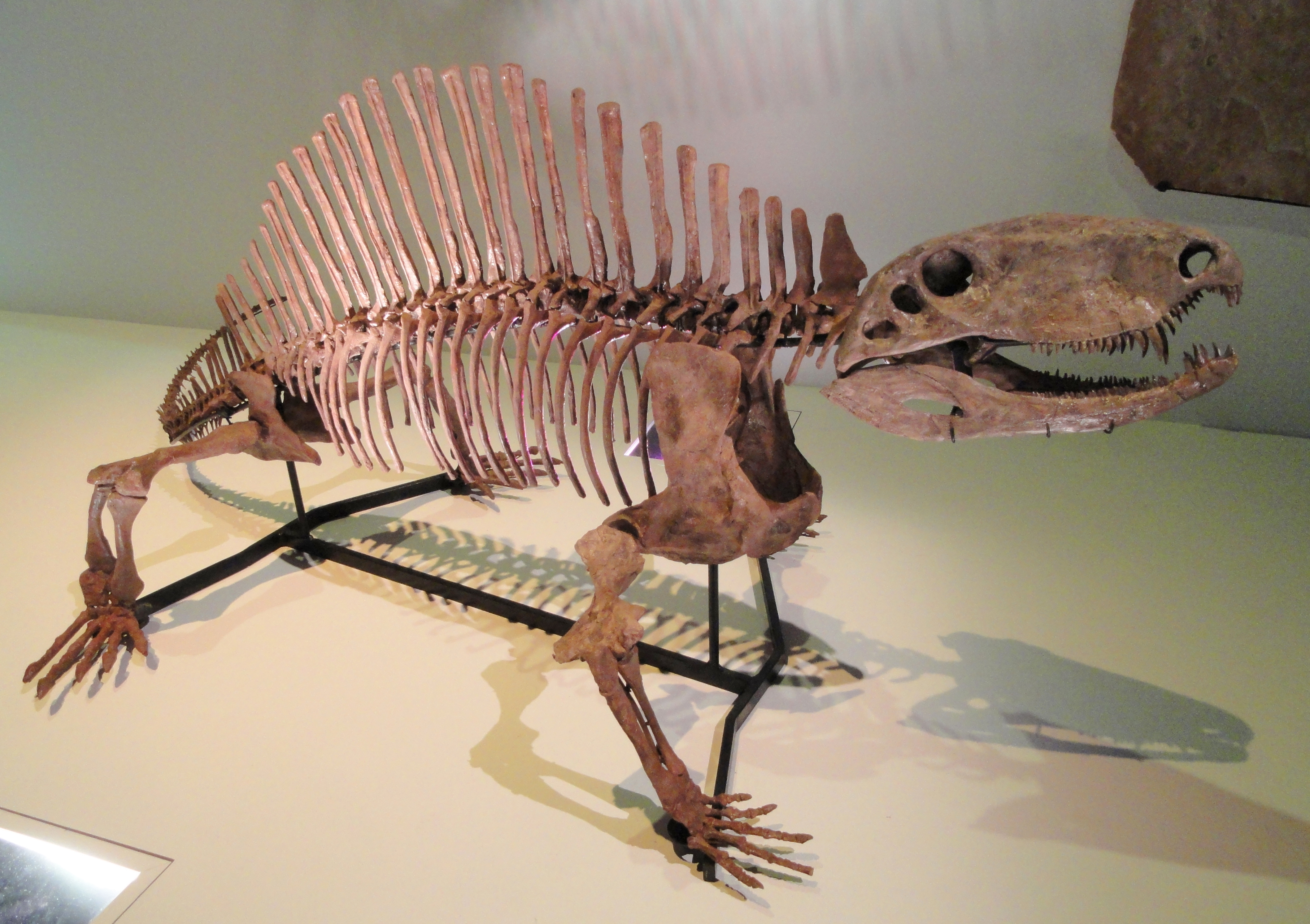 Exhibit in the Houston Museum of Natural Science, Houston, Texas, USA.